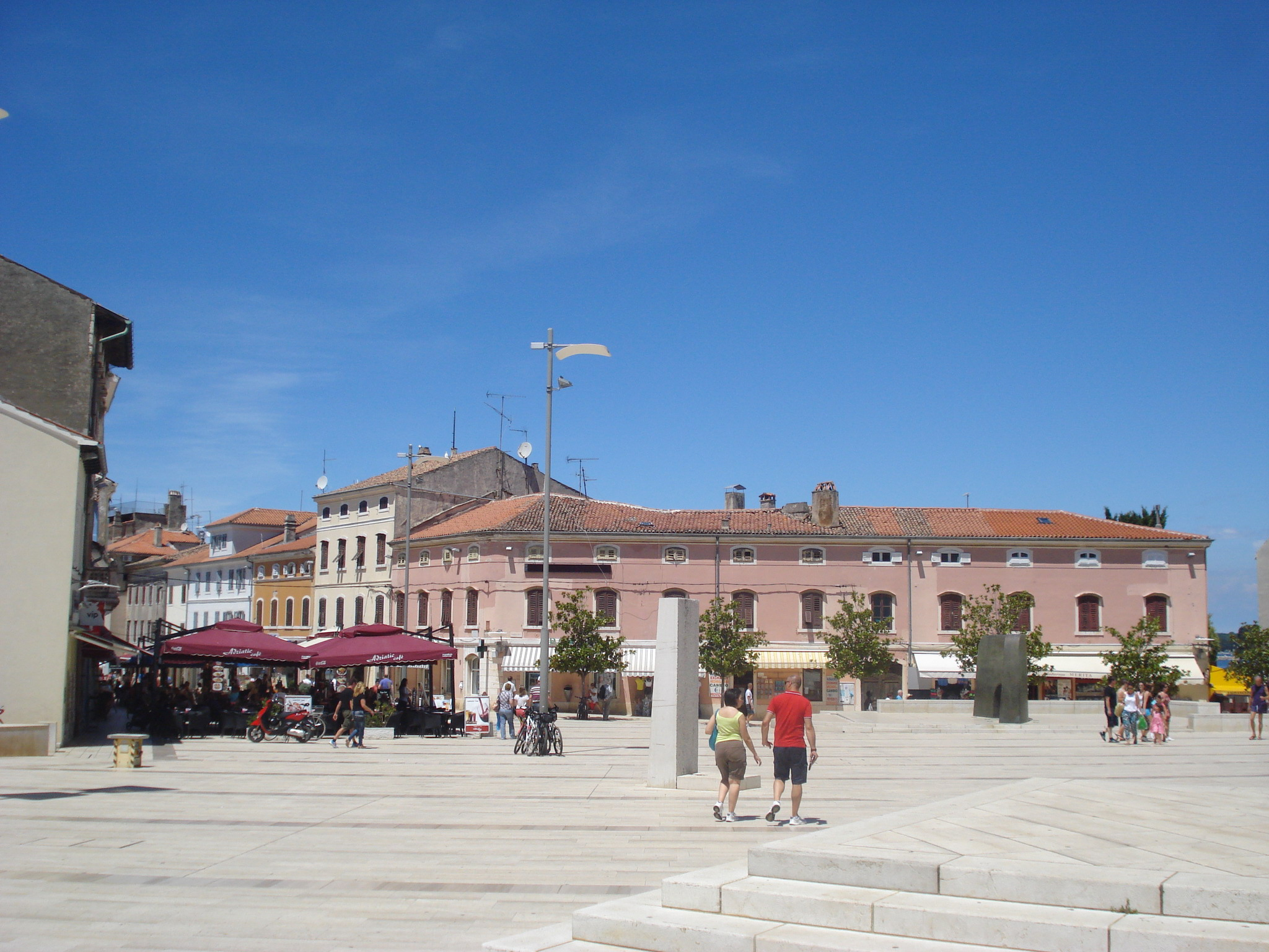 The Town of Poreč, Croatia - Freedom SquareHrvatski: Grad Poreč, Hrvatska - Trg slobode